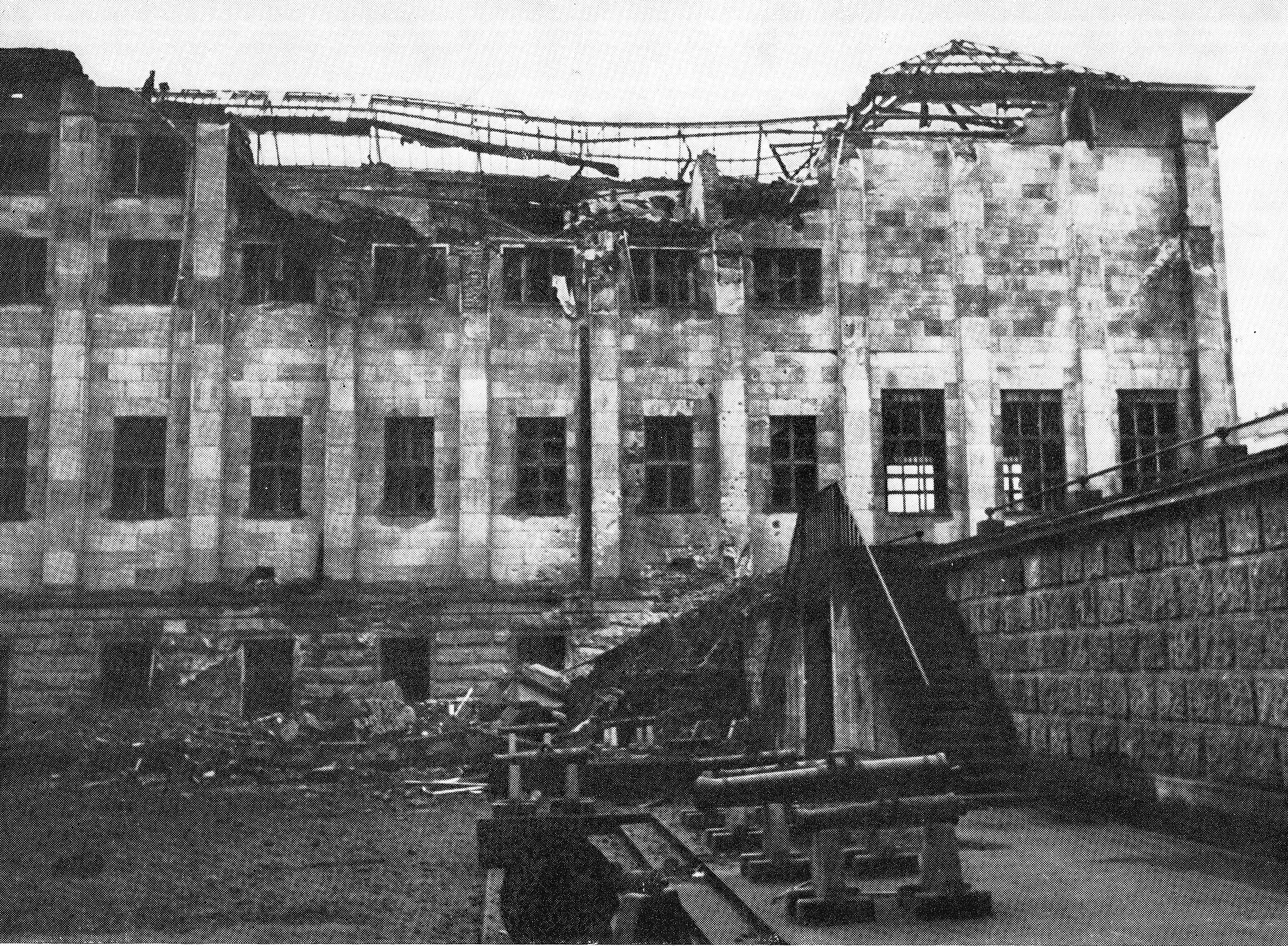 Demolished building of the National Museum